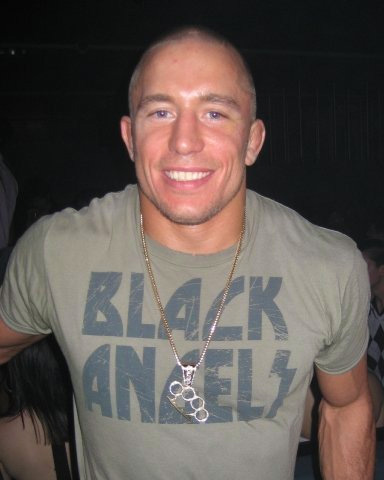 Photo of Georges St-Pierre taken at Club Opera.